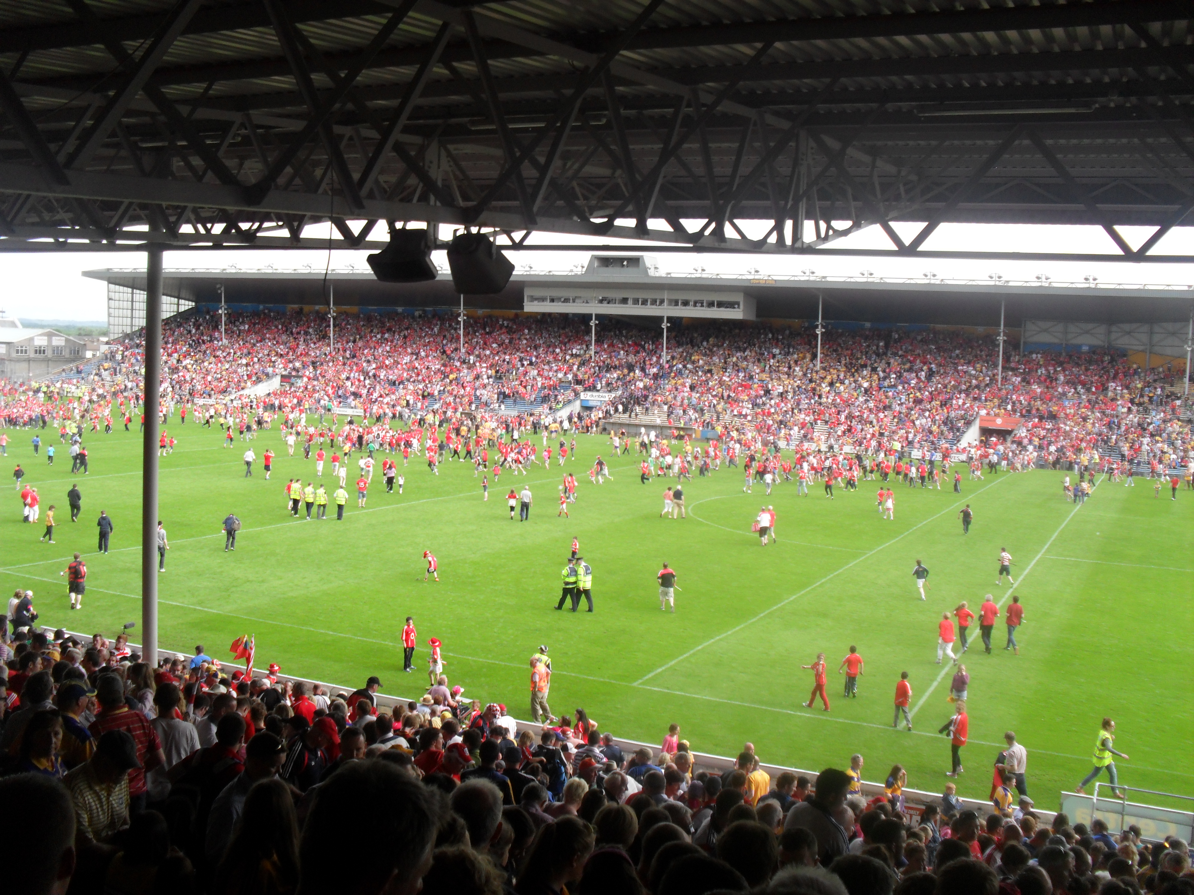 15 June 2015, Semple Stadium, Thurles